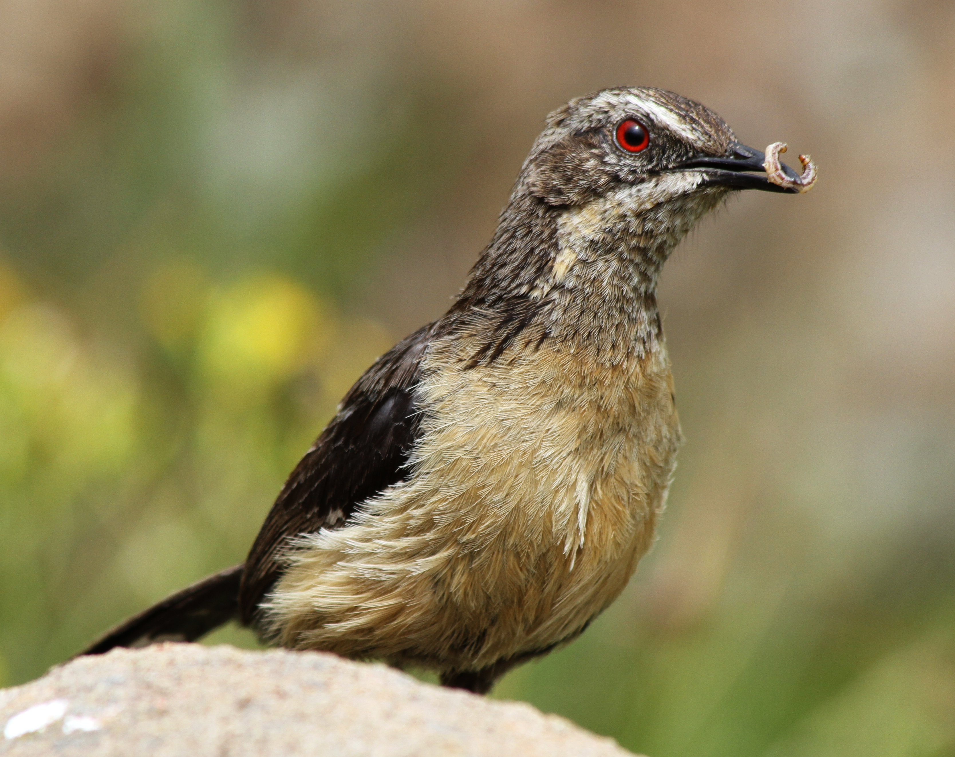 Female Chaetops aurantius, Chain Ladder Walk near the Sentinel Car Park near Witsieshoek, KZN, South Africa. About 28°43'S, 28°53'E.